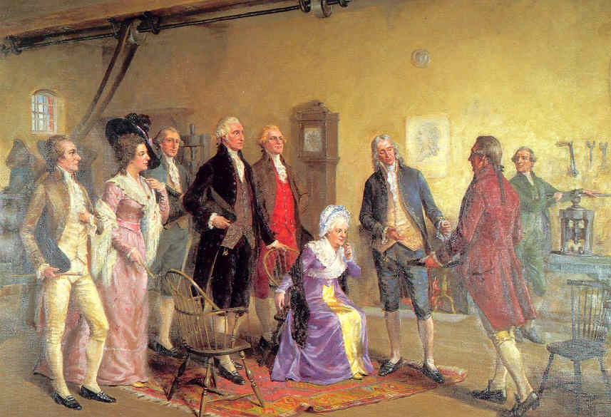 America’s First Coins Displayed By First US Mint Officials on July 13, 1792 New York Artist John Ward Dunsmore’ Panting, captures the first US coins produced by the first US Mint producers in Philadelphia (Painting is on display at today’s Philadelphia Mint, 151 Independence Mall East, Philadelphia, PA 19106) Pictured (left-to-right)) in Artist Dunsmore’s Painting are Secretary of the Treasury and Mrs. Alexander Hamilton, President Washington’s Secretary Tobias Lear, President Washington, Secretary of State (later President) Thomas Jefferson, First Lady Martha Washington (seated), First US Mint Director David Rittenhouse, First Coiner of the US Mint Henry Voigt, and Coin Producer Adam Eckfeldt